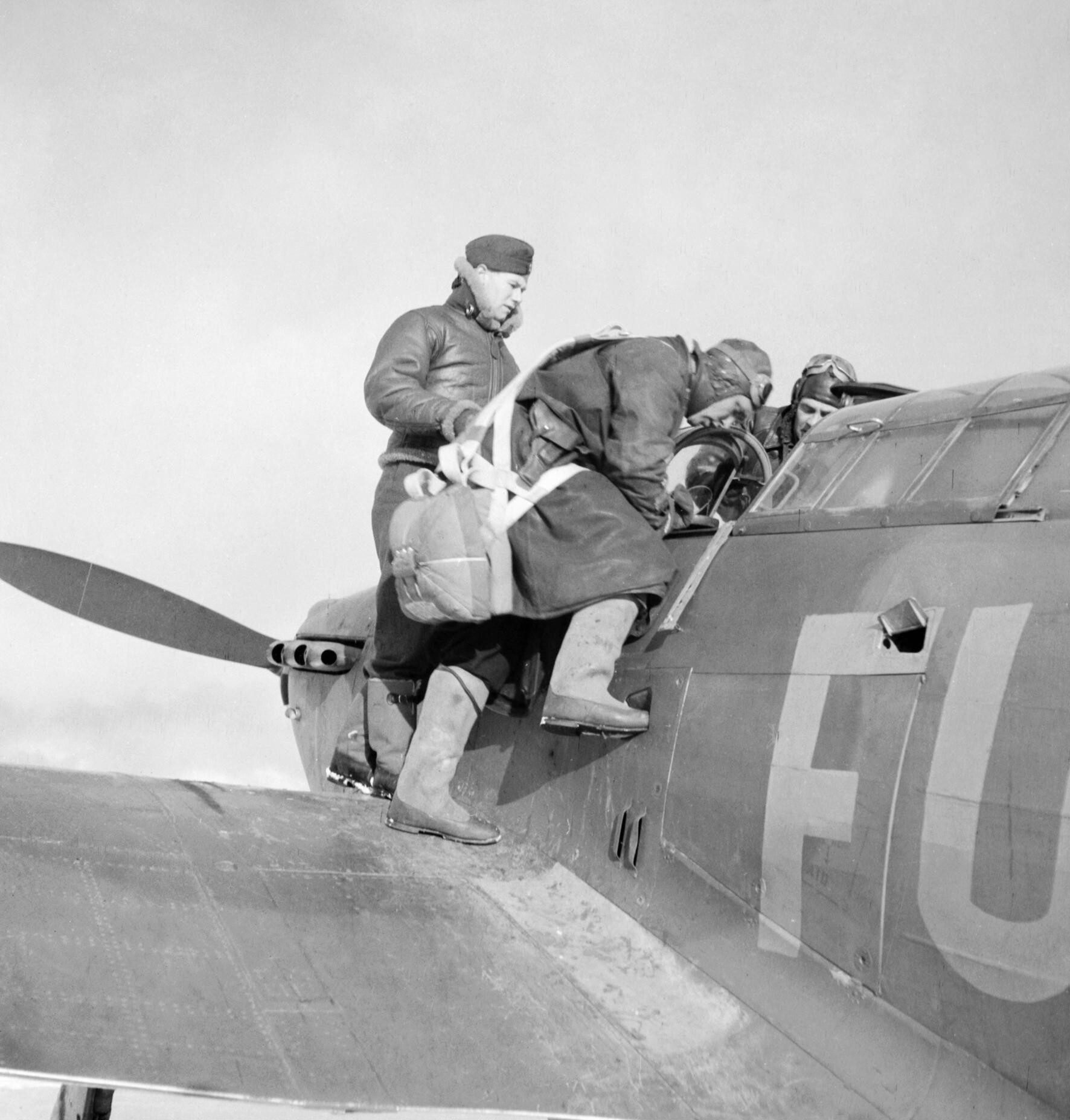 No. 151 Wing Royal Air Force Operations in Russia, September-november 1941. Pilots of the Red Air Force inspect the cockpit of a Hawker Hurricane of No. 81 Squadron RAF under the supervision of an RAF pilot, during conversion training at Vaenga.